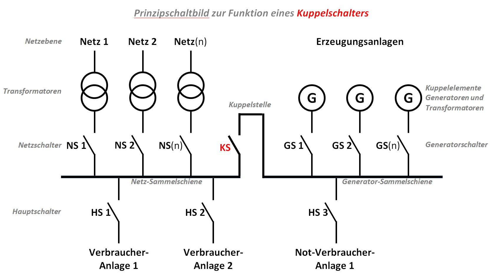 Circuit diagram of a coupling switch in a power supply system with emergency supply.